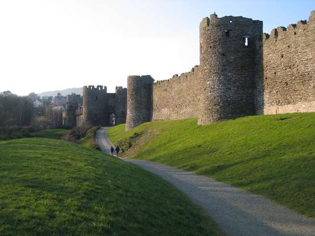 Conwy town walls. The view along Conwy town walls from near the hand operated derrick - see 695901. I believe the gate in the distance is the Mill Gate, which once led down to the king's mill on the smaller River Gyffin. Today the North Wales rail line is out of sight on the left.